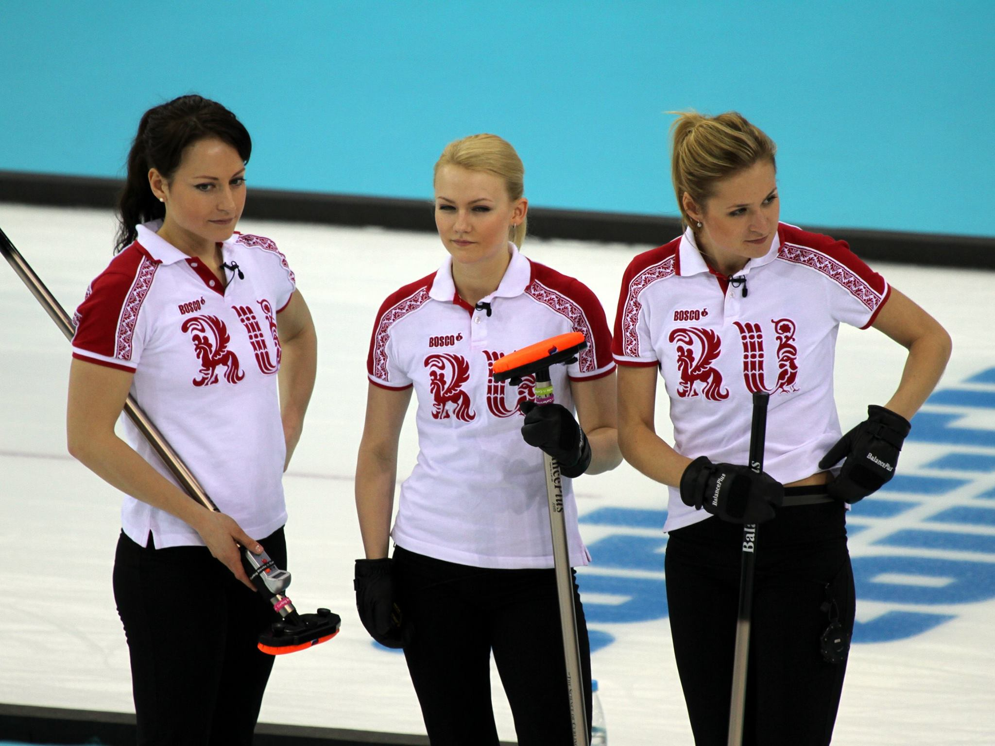 Women's curling at the 2014 Winter Olympics, Russia